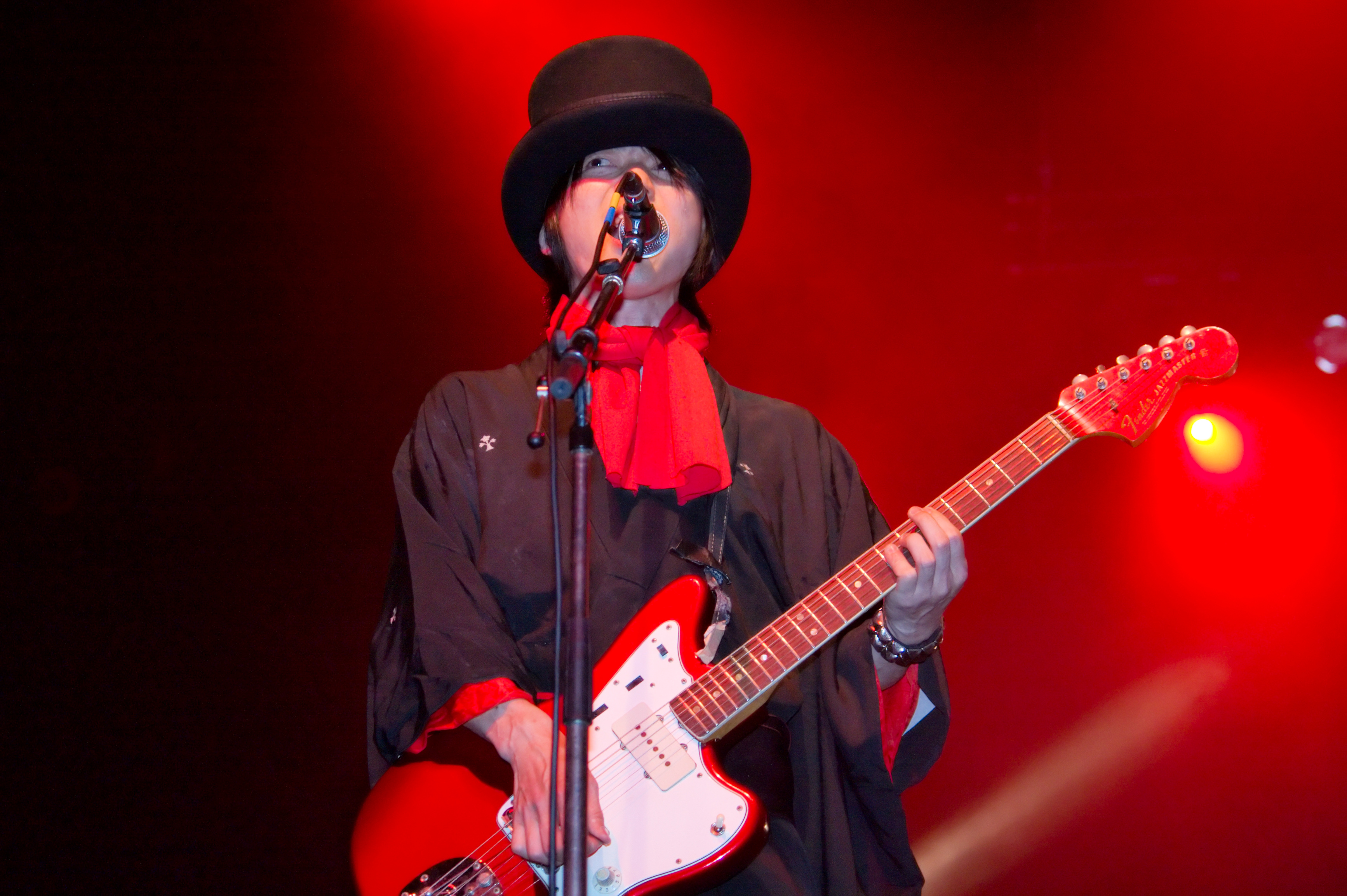 CATSUOMATICDEATH live at Japan Expo 2008 (Paris, France).